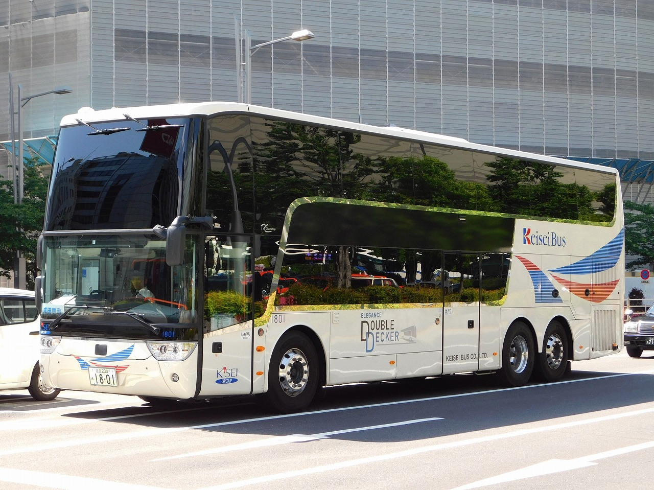 Keisei bus Vanhool Astromega "Yurakucho shuttle"(Tokyo sta. - Narita International Airport)